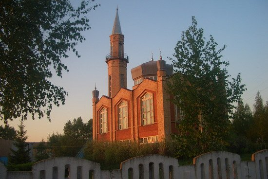 Foto